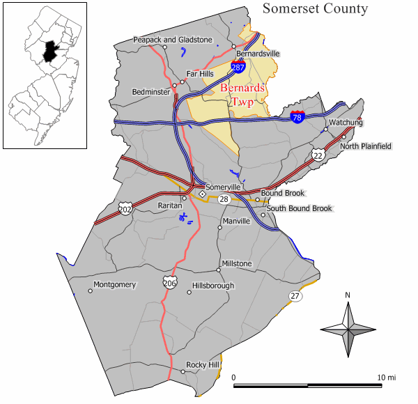 Map of Bedminster Township in Somerset County, New Jersey.